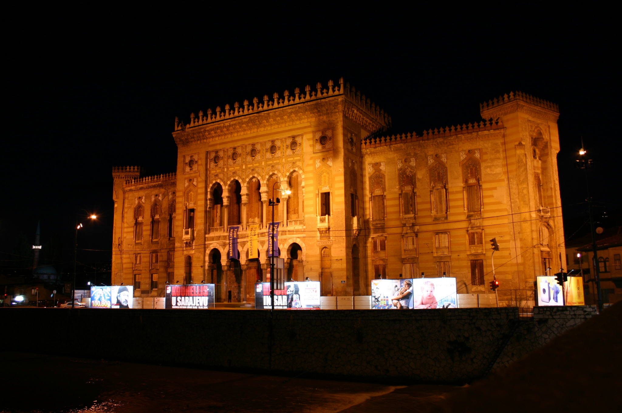 Photo by Dado in 2004. According to its architectural and environmental values, the City Hall has always had a strong impact in the city's structure. It was constructed in the end of the 19th Century, in 1892, at the very edge of Bascarsija, by famous Alexander Wittek, who started the construction as well. The project was later altered by Chiryl Ivekovic in the neomaorian style, with strong influence of the Mamelook architecture of Cairo. It was officially pronounced City Hall in 1895. Later on it changed its purpose and became the National Library. As the National Library, it suffered great damage during the 1992 bombing of the city. Until today, it is still under a very slow process of reconstruction.